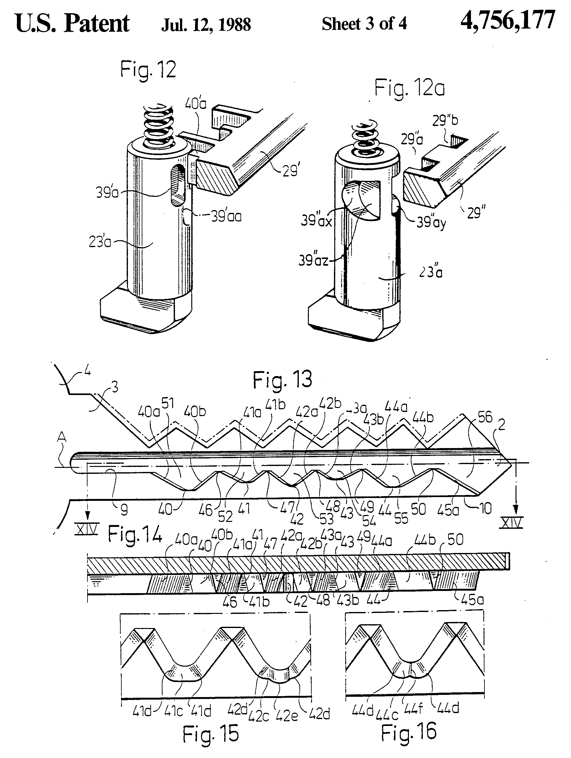 US patent # 4756177